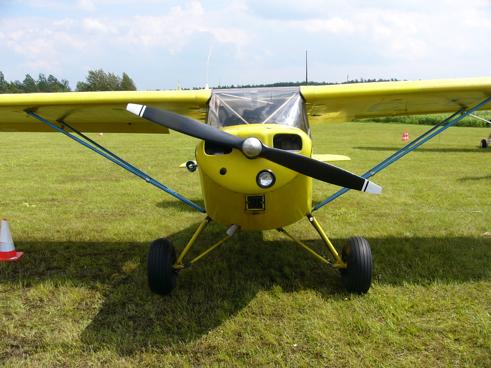 Wag-Aero Wag-A-Bond at Les Faucheurs de Marguerites, Sherbrooke, Quebec, Canada